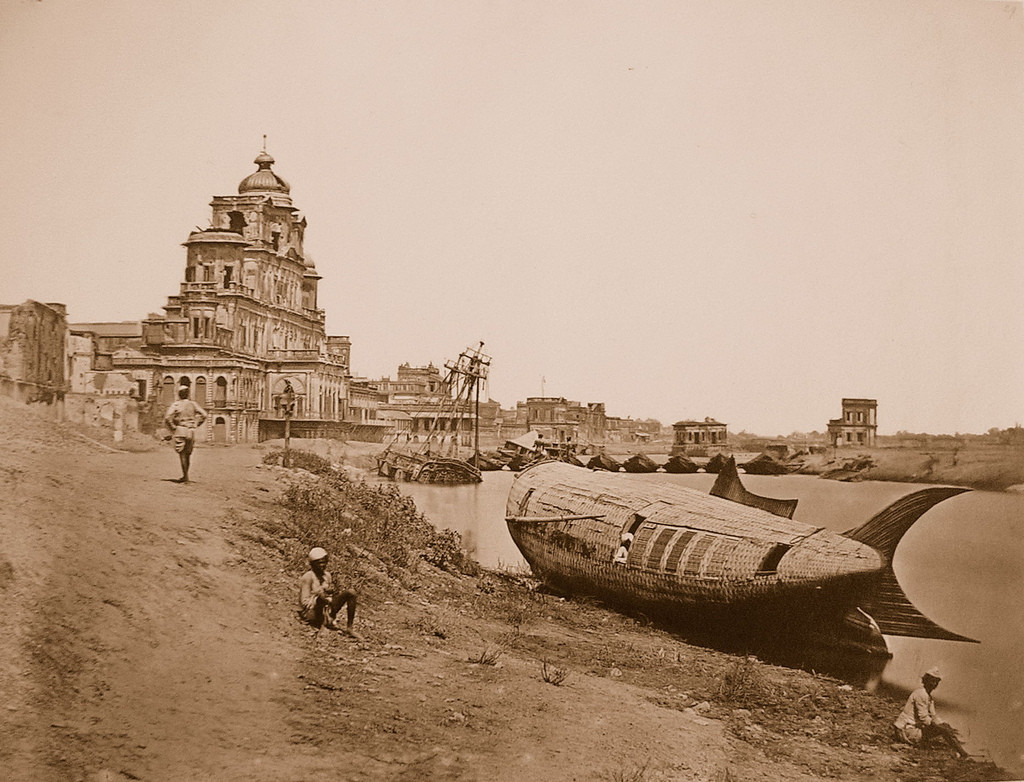 Chutter Manzil Palace, with the King's Boat in the Shape of a Fish. View of one of the Chattar Manzil [Umbrella Palaces] showing the King's boat called The Royal Boat of Oude on the Gomti River. Lucknow, India, 1858 - 1860. Albumen silver print by Felice Beato.